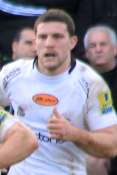 Kennedy tackling 2013-14 English Premiership Harlequins vs Falcons